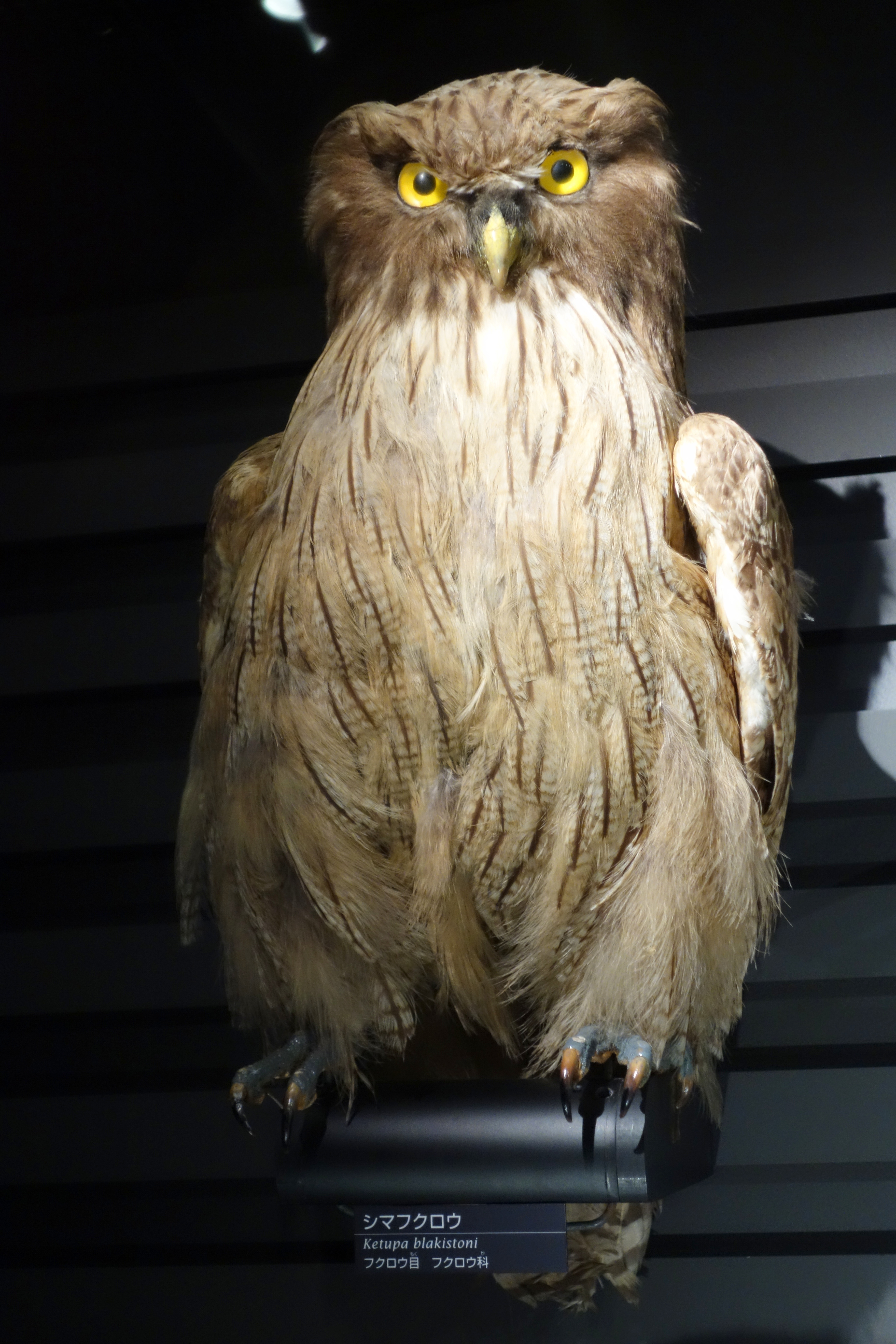 Exhibit in the National Museum of Nature and Science, Tokyo, Japan.